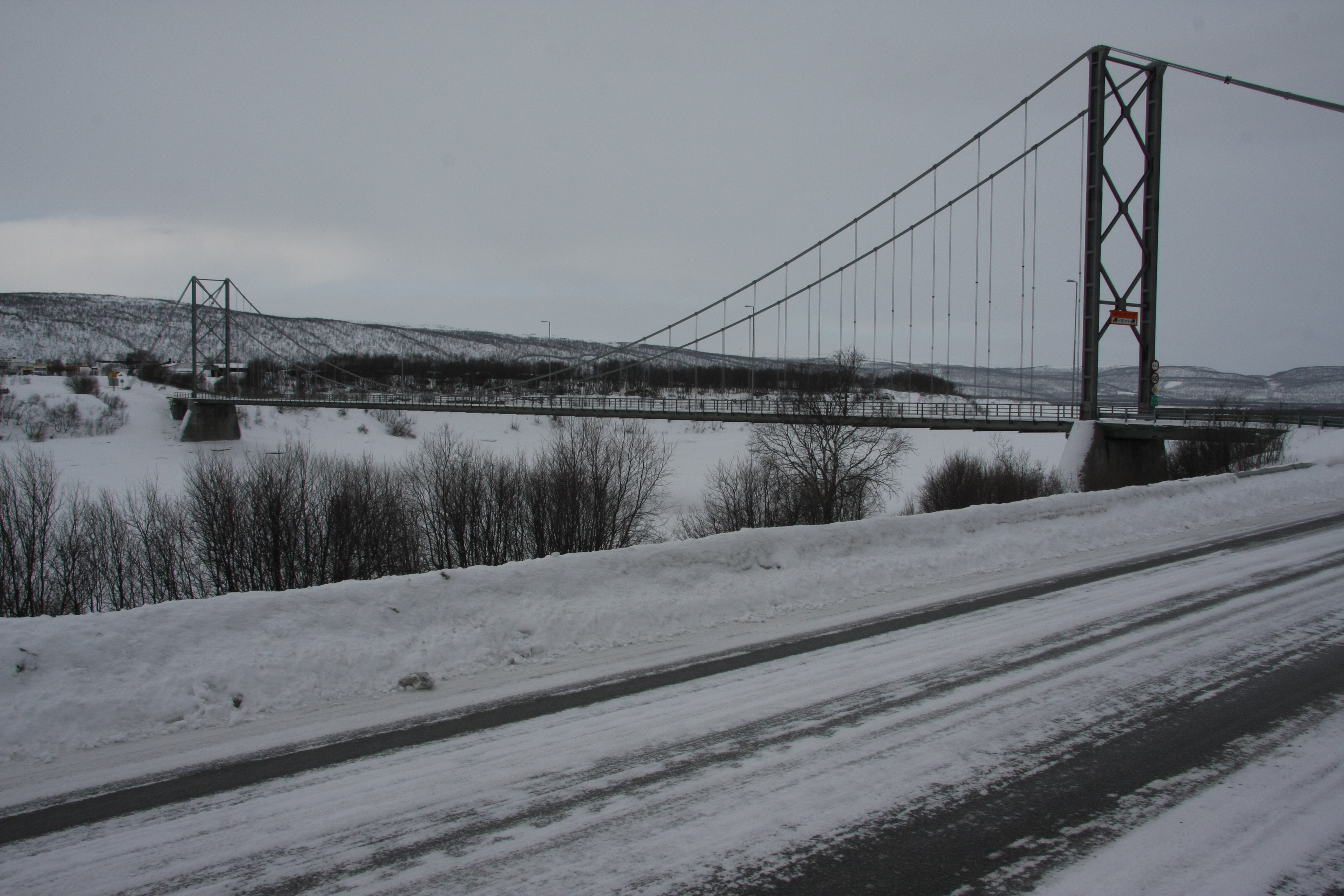 The brigde of Tana ("Tana bru") has been built in 1948 in the village called Tana bru.